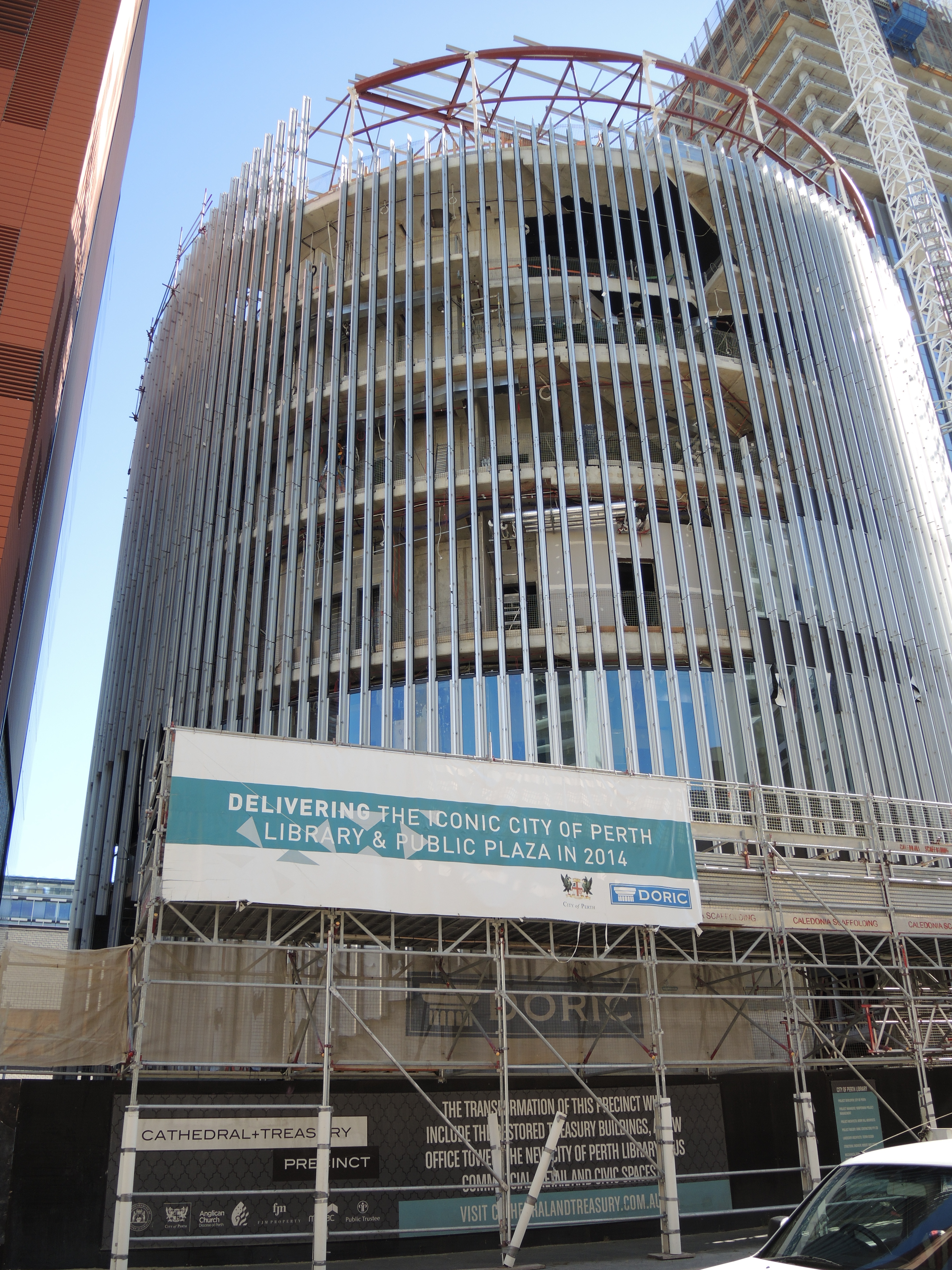 Future City of Perth Library under construction, November 2014. Taken as part of Open House Perth 2014.